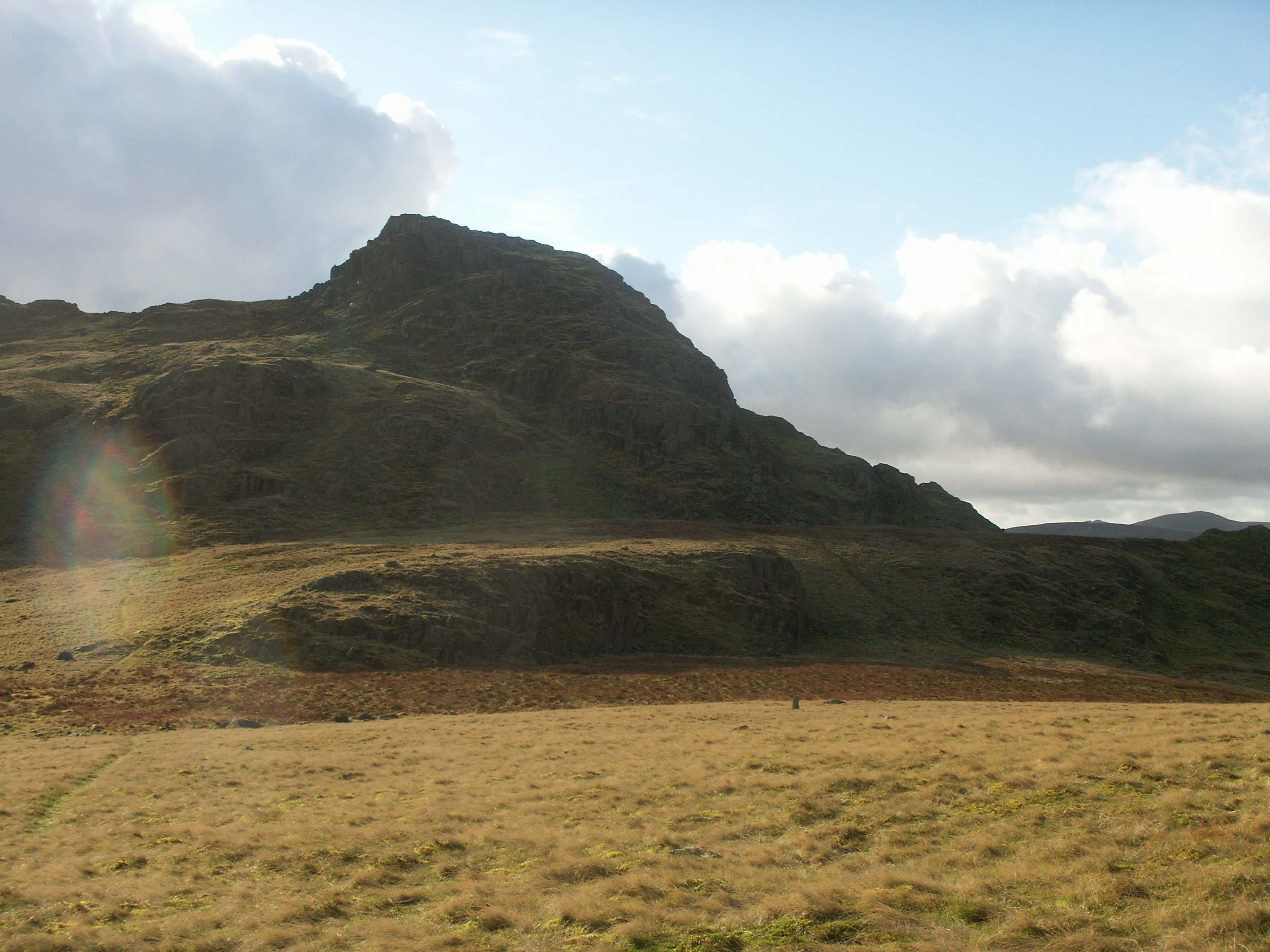 Summit of Green Crag, Birker Fell, Lake District, England Own photo taken by Bobble Hat Creative Commons Attribution 3.0